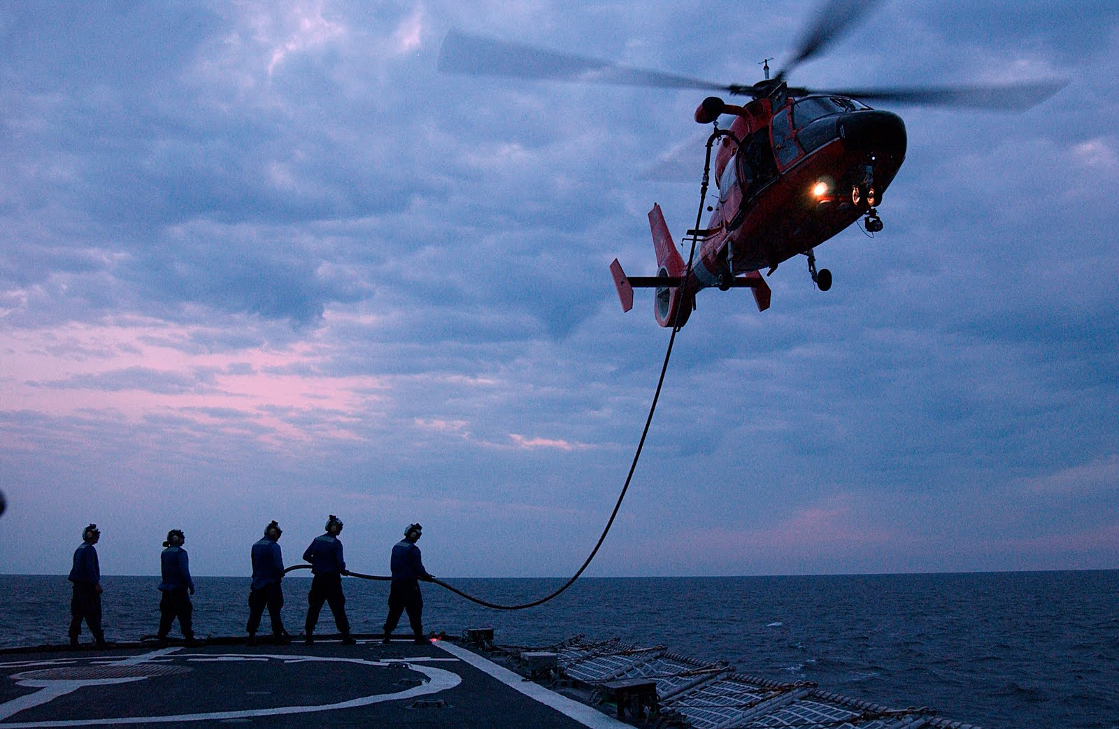 NEW ORLEANS (May 4, 2005) - Crew members aboard the Coast Guard Cutter Valiant, homeported in Miami, pass a fuel line to an HH-65 Dolphin helicopter crew from Coast Guard Air Station New Orleans during a training exercise in the Gulf of Mexico.